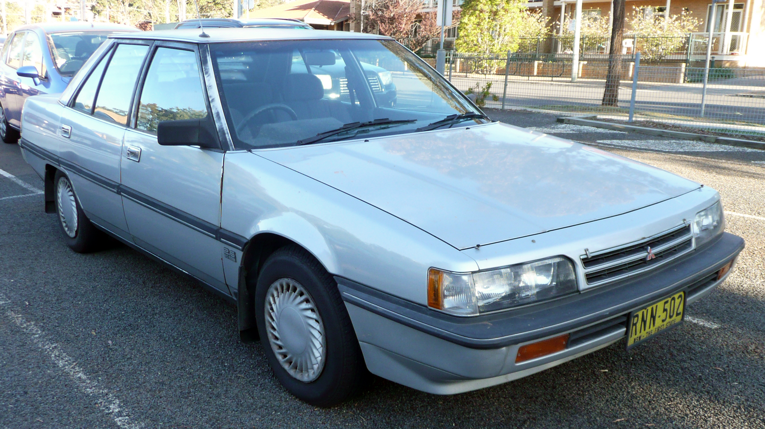 1990 Mitsubishi Magna (TP) Executive sedan. Photographed in Sutherland, New South Wales, Australia.